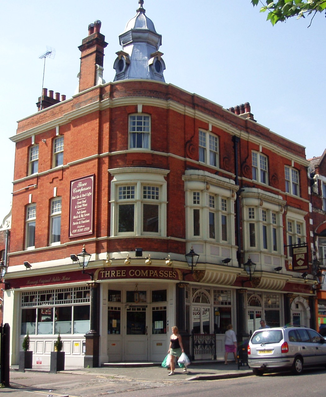 Good Beer Guide pub on Hornsey High St. Address: 62 High Street. Links: London Pubology